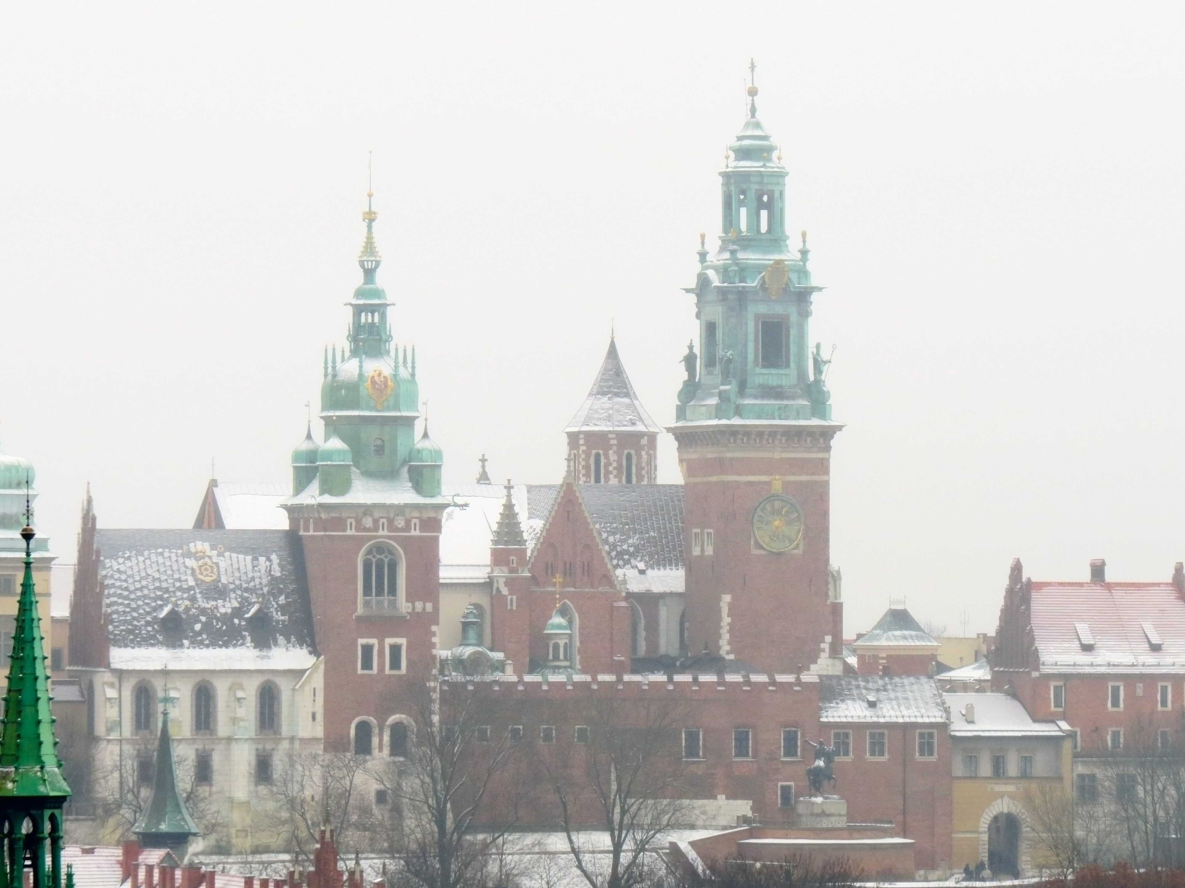 View from Town Hall Tower in Kraków. Wawel Cathedral